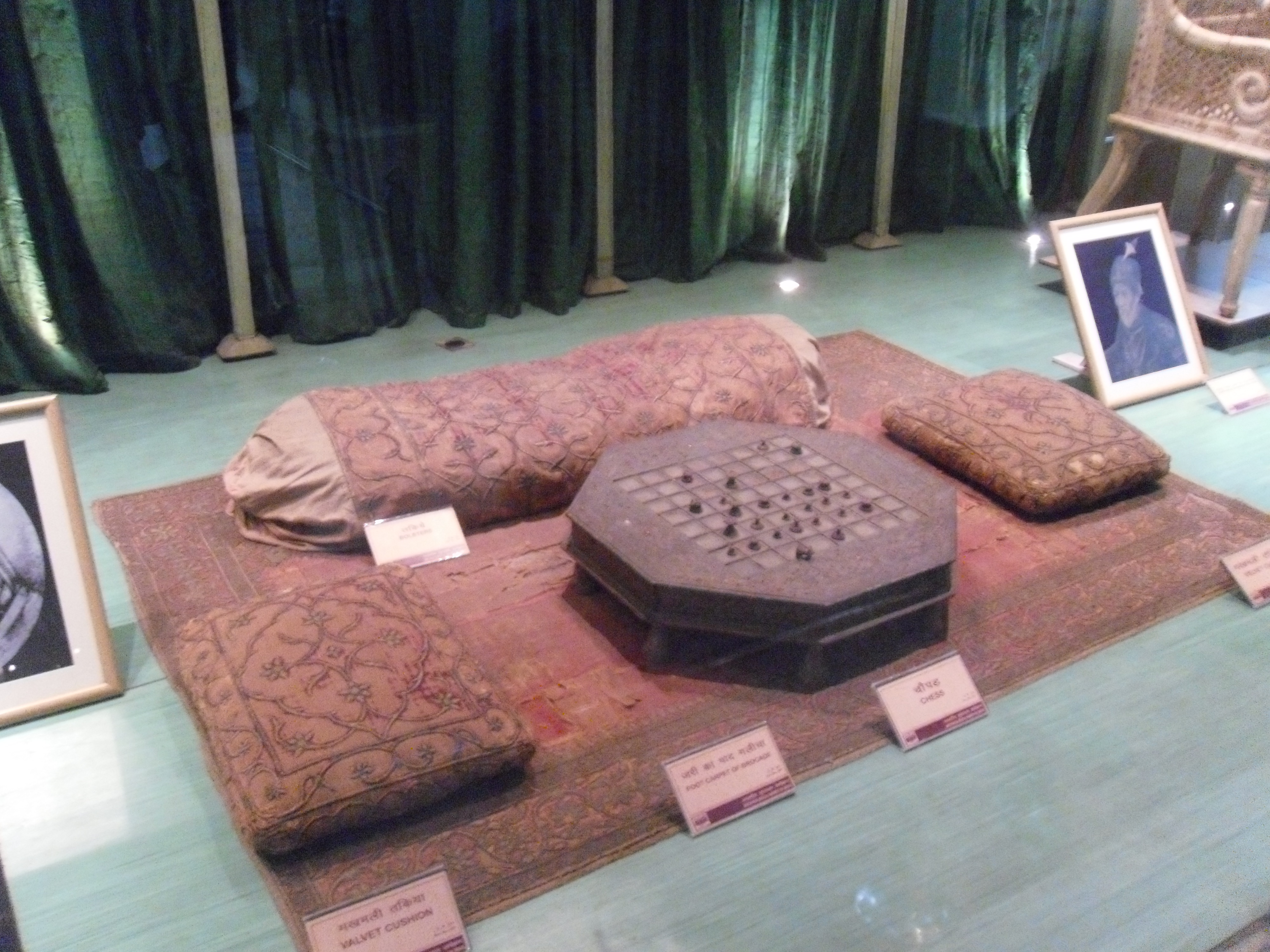 Ancient chessboard in the museum at Mumtaz Mahal, Red Fort